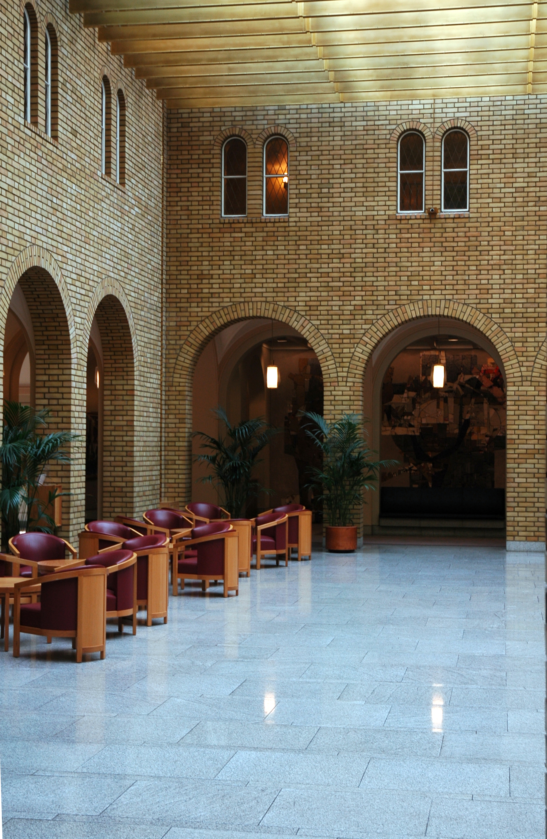 Lobby at the Norwegian parliament